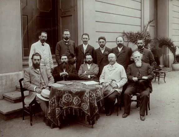 a Group of Russian Zionists on the 7th World Zionist Congress, Basel 1905